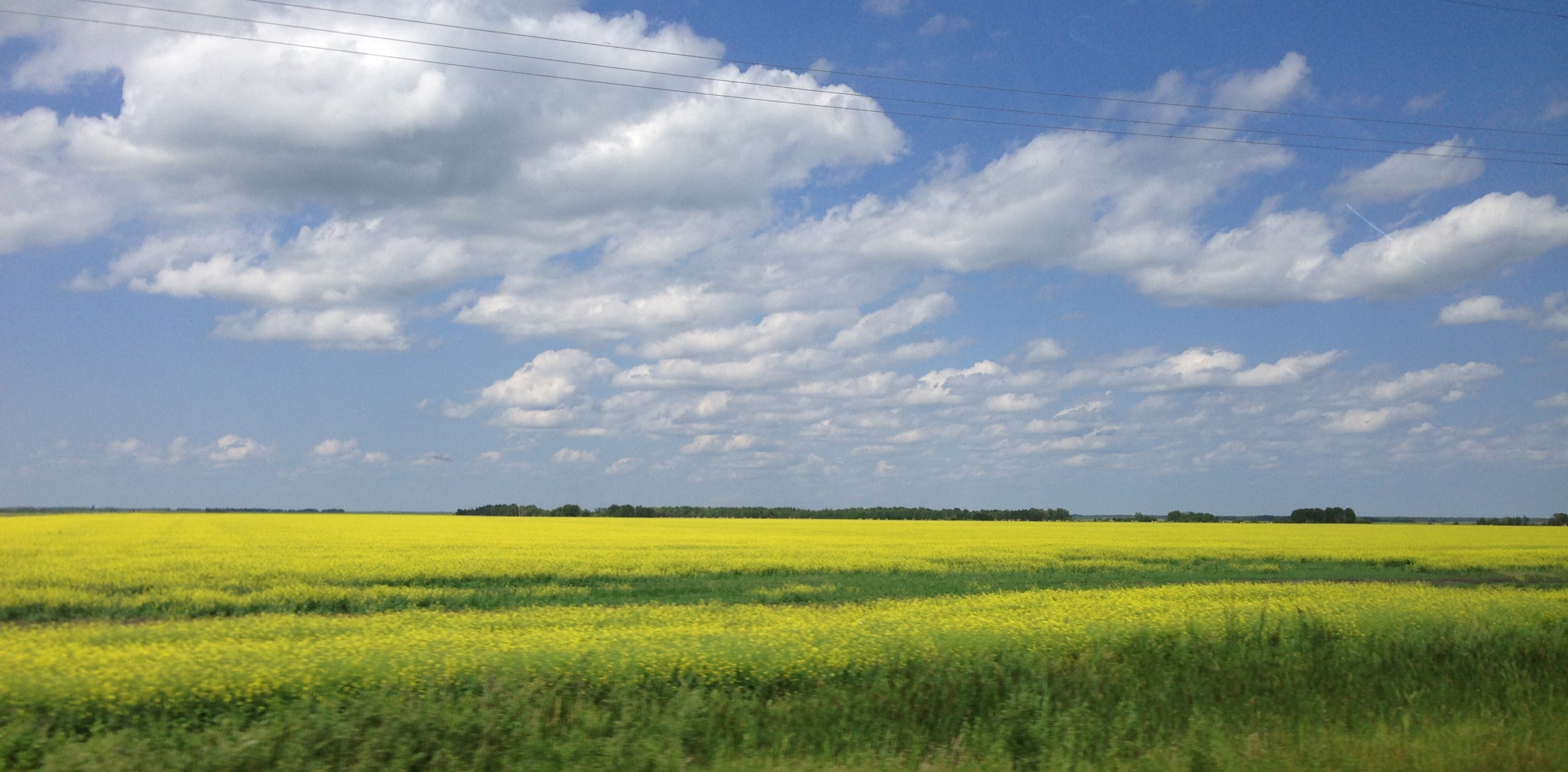 Canola in Manitoba, Canada